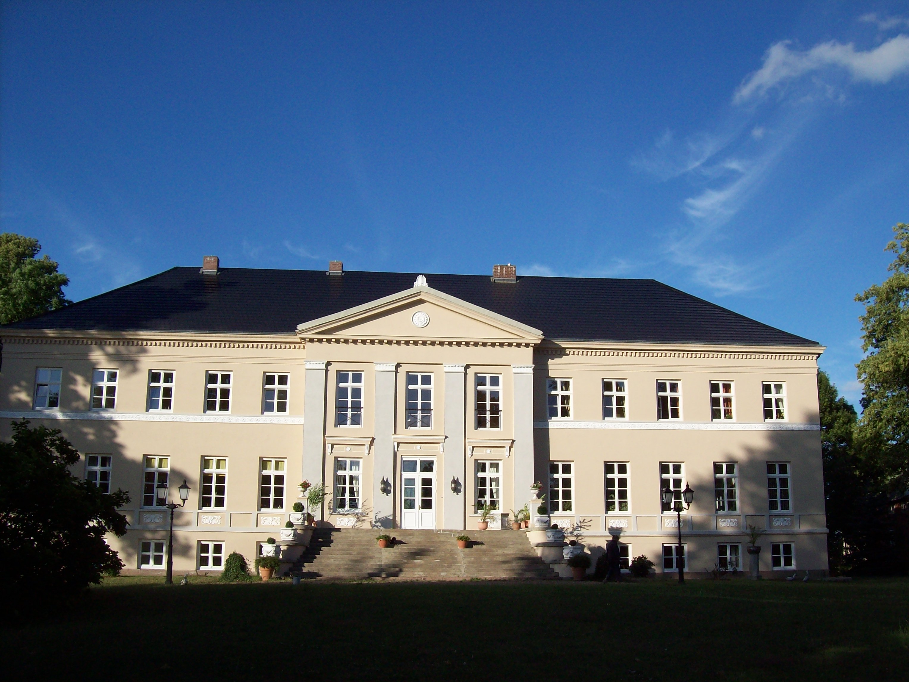 Manor house of Pritzier